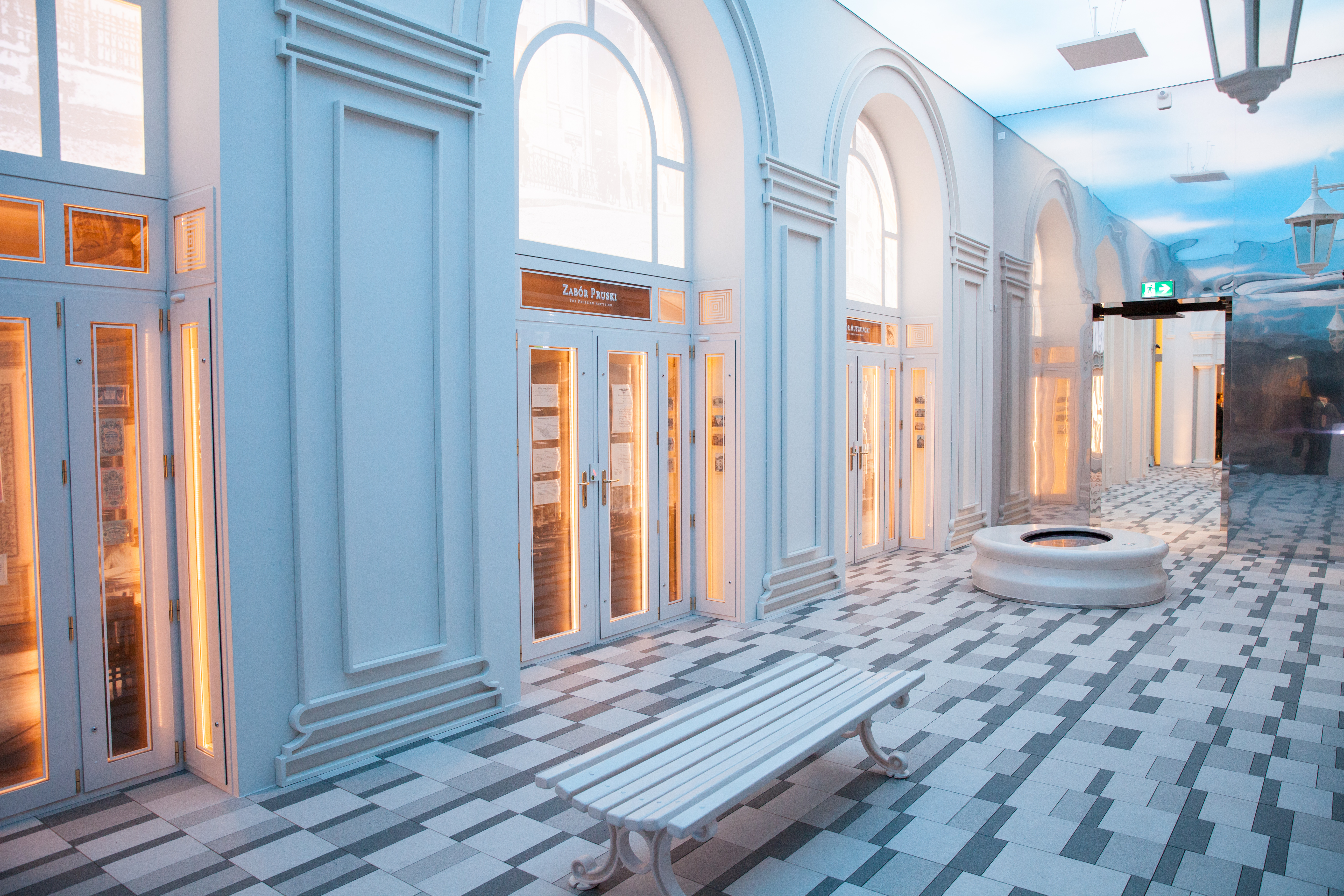 Bank Street in Centrum Pieniądza NBP im. Sławomira S. Skrzypka, Warsaw, Poland